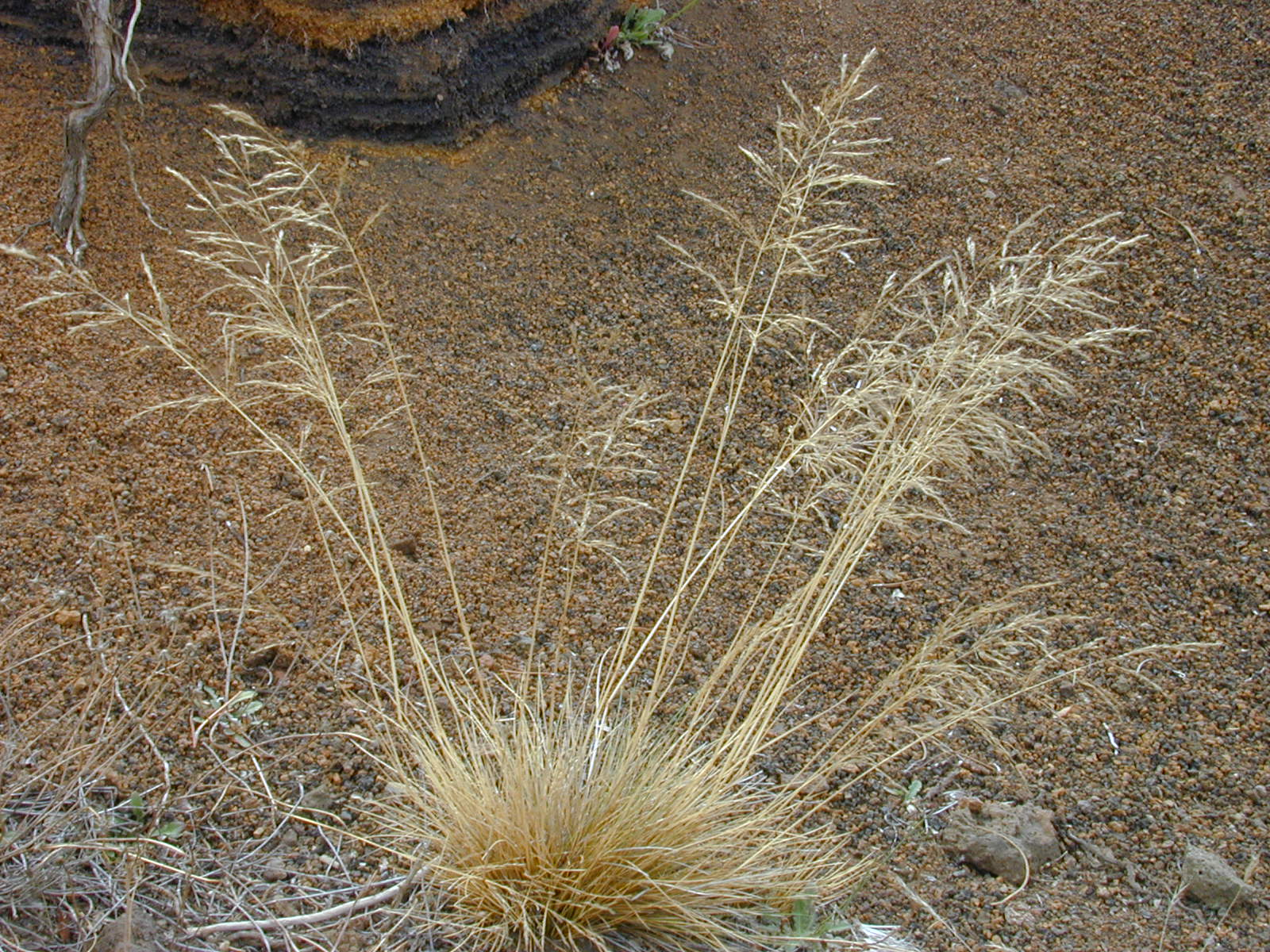 Deschampsia nubigena (habit in cinder). Location: Maui, Polipoli